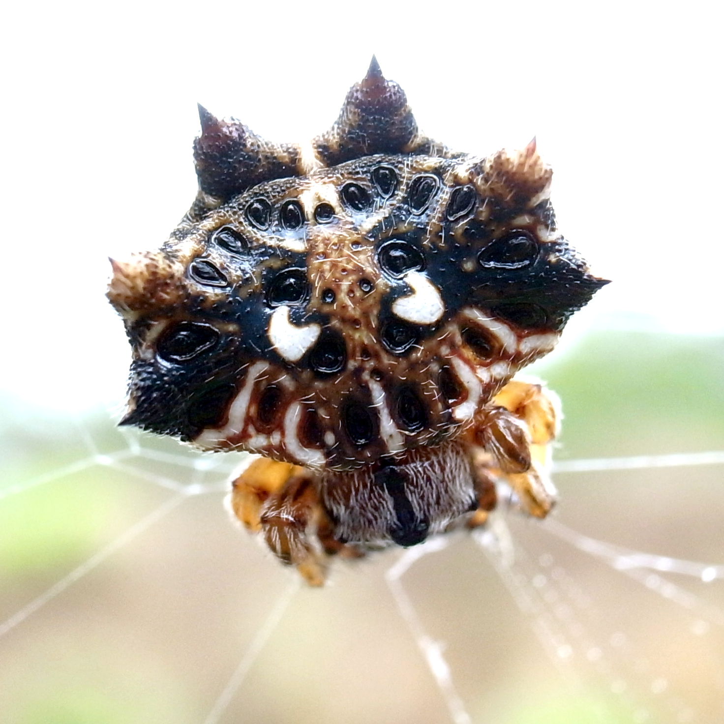 Dorsal view of adult female Thelacantha brevispina from Taiwan.